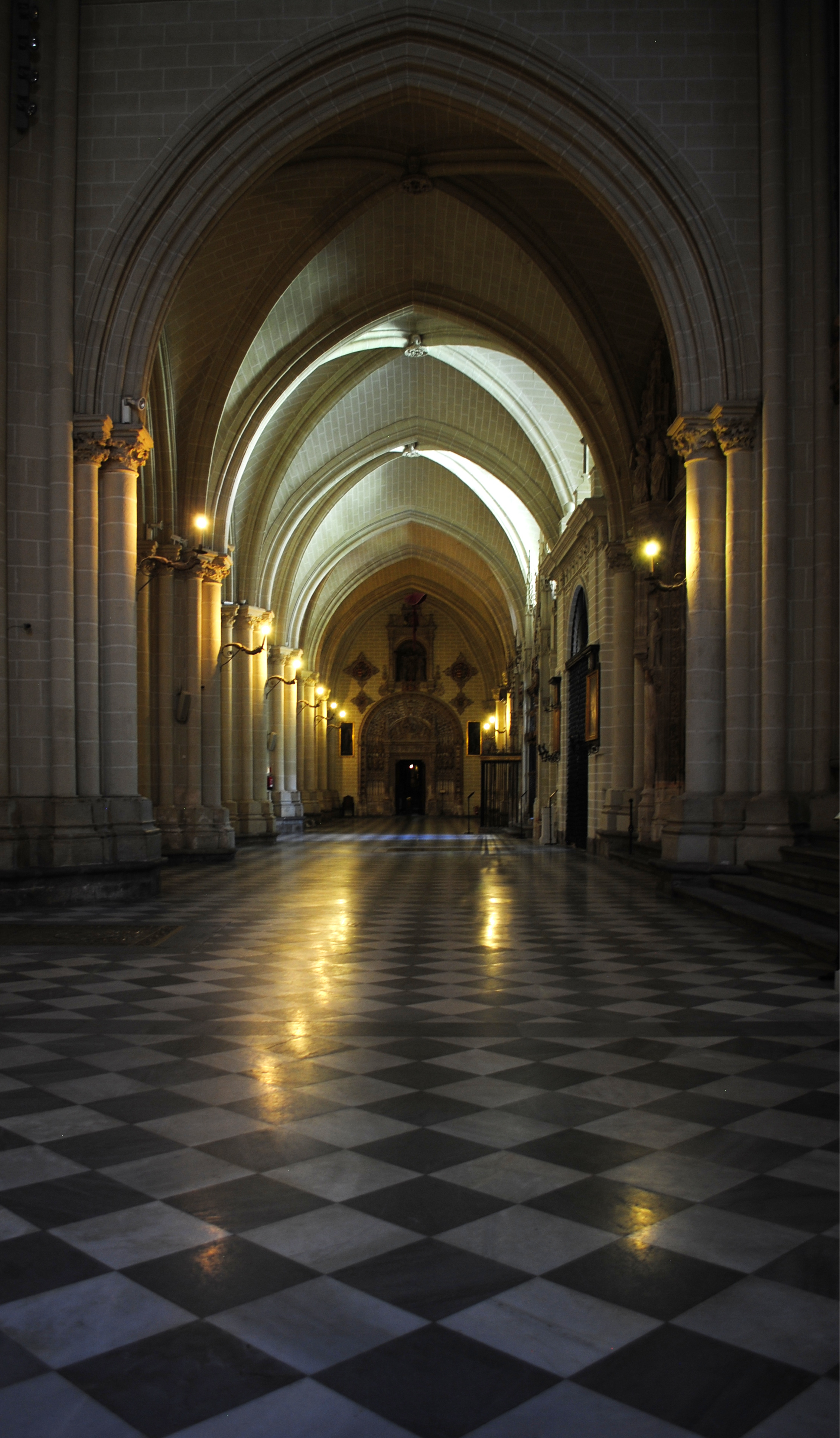 Toledo Cathedral interior.